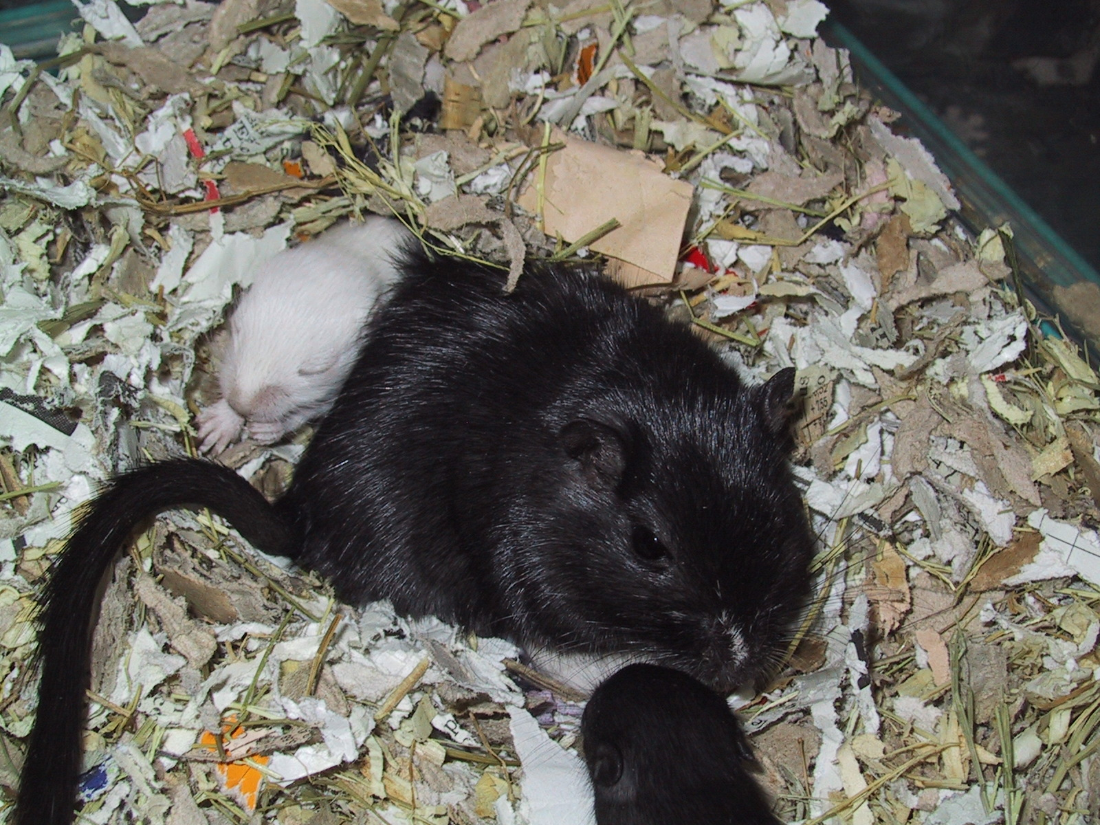 14 days old pet Gerbils and female (Meriones_unguiculatus)